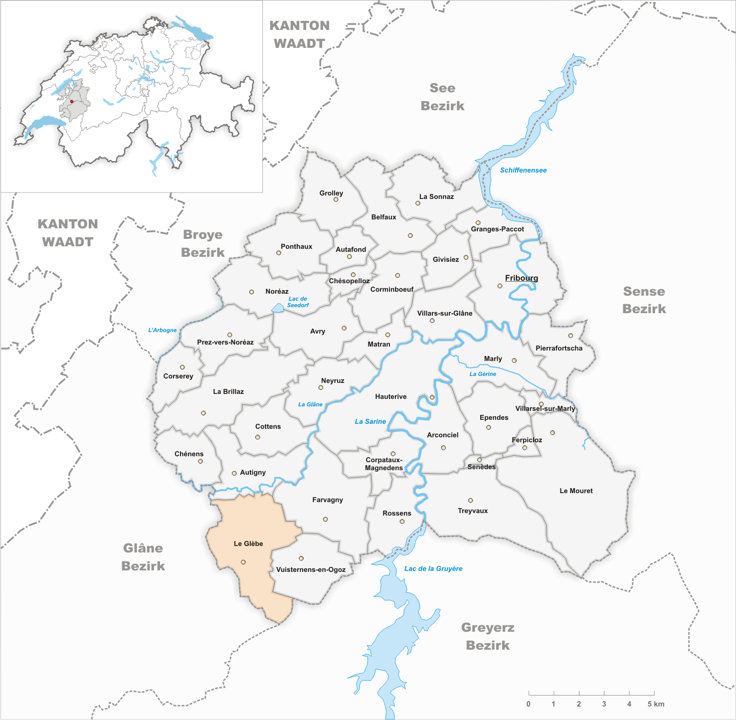 Municipality Le Glèbe